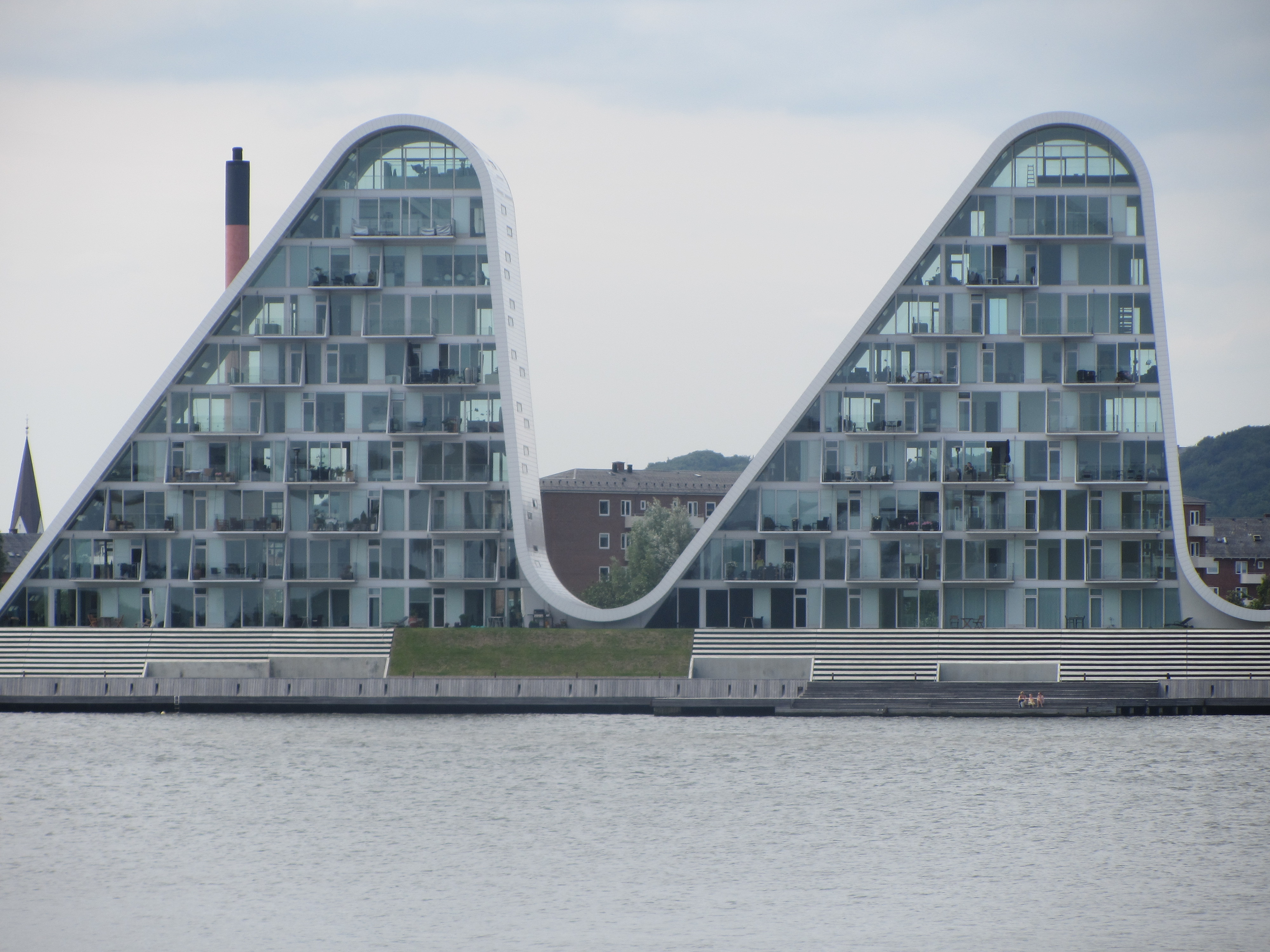 Image of 'The Wave' in Vejle, Denmark